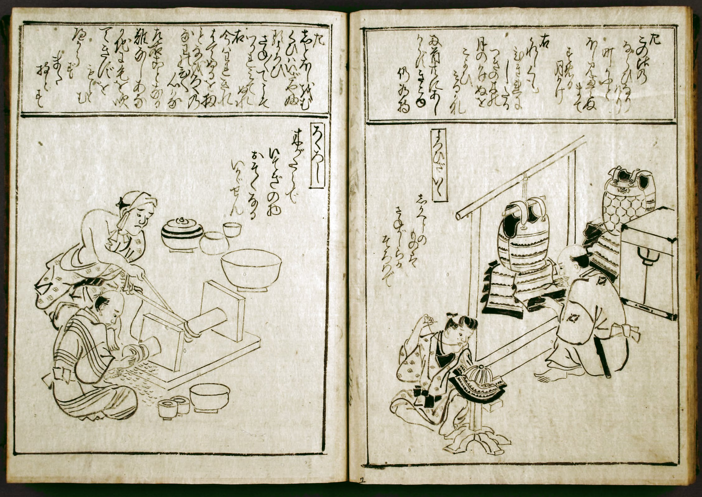 Fukurotoji (Say "Bag-Binding") is an Asian bookbinding method in past times. This book is bound in this manner. illustrations do not depict the bookbinding process, but other topics, possibly armor making